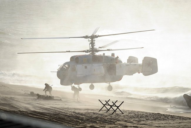 The final stage of the Zapad-2013 Russian-Belarusian strategic military exercises.